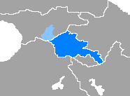 Map of the Caucasus showing the regions where Armenian is the language of the majority